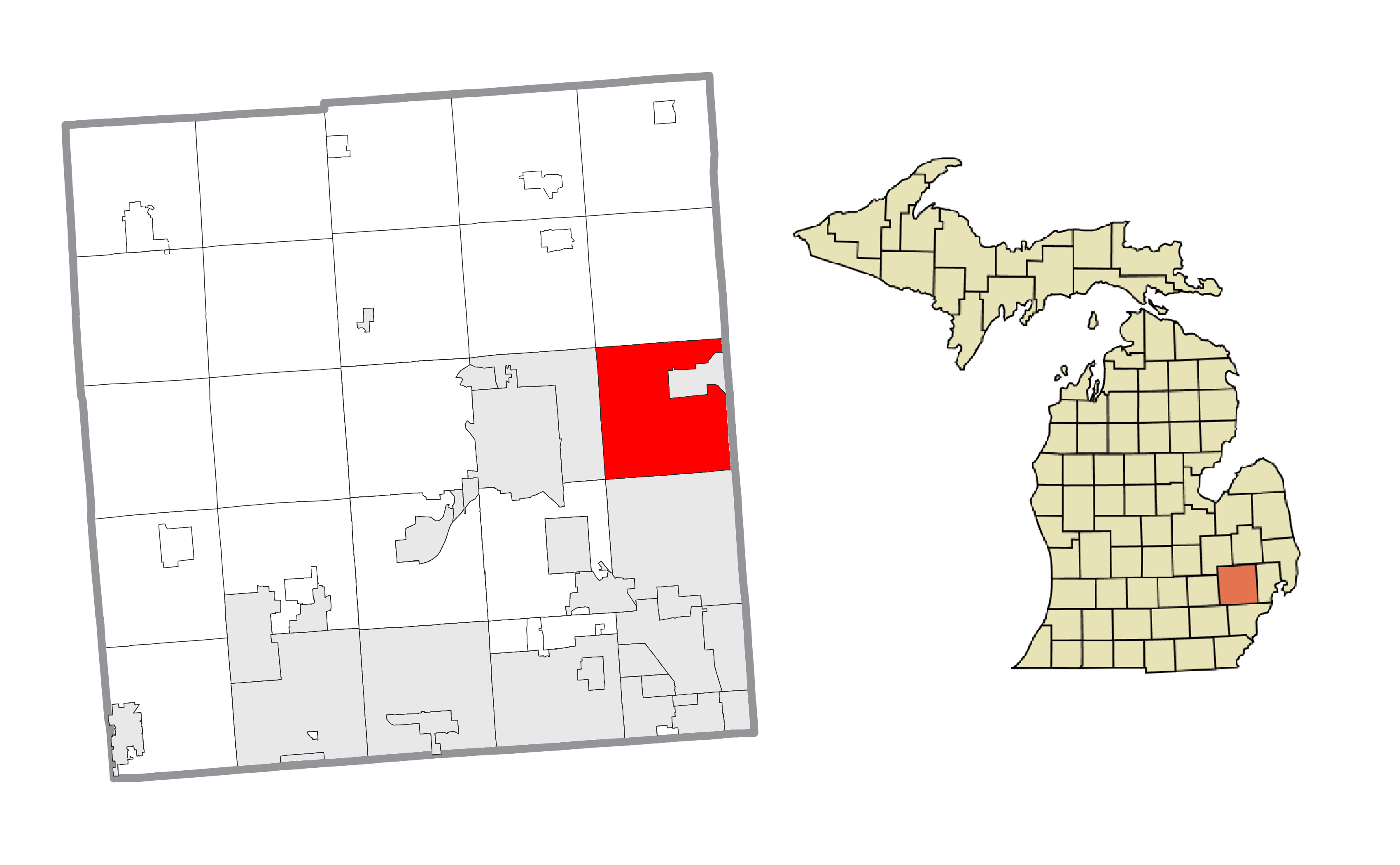 Rochester Hills, MI